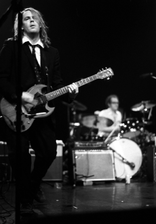 Jay Walter Bennett and Kenny Ray Coomer of Wilco, New Year's Eve show, Riviera Theatre, Chicago, Illinois